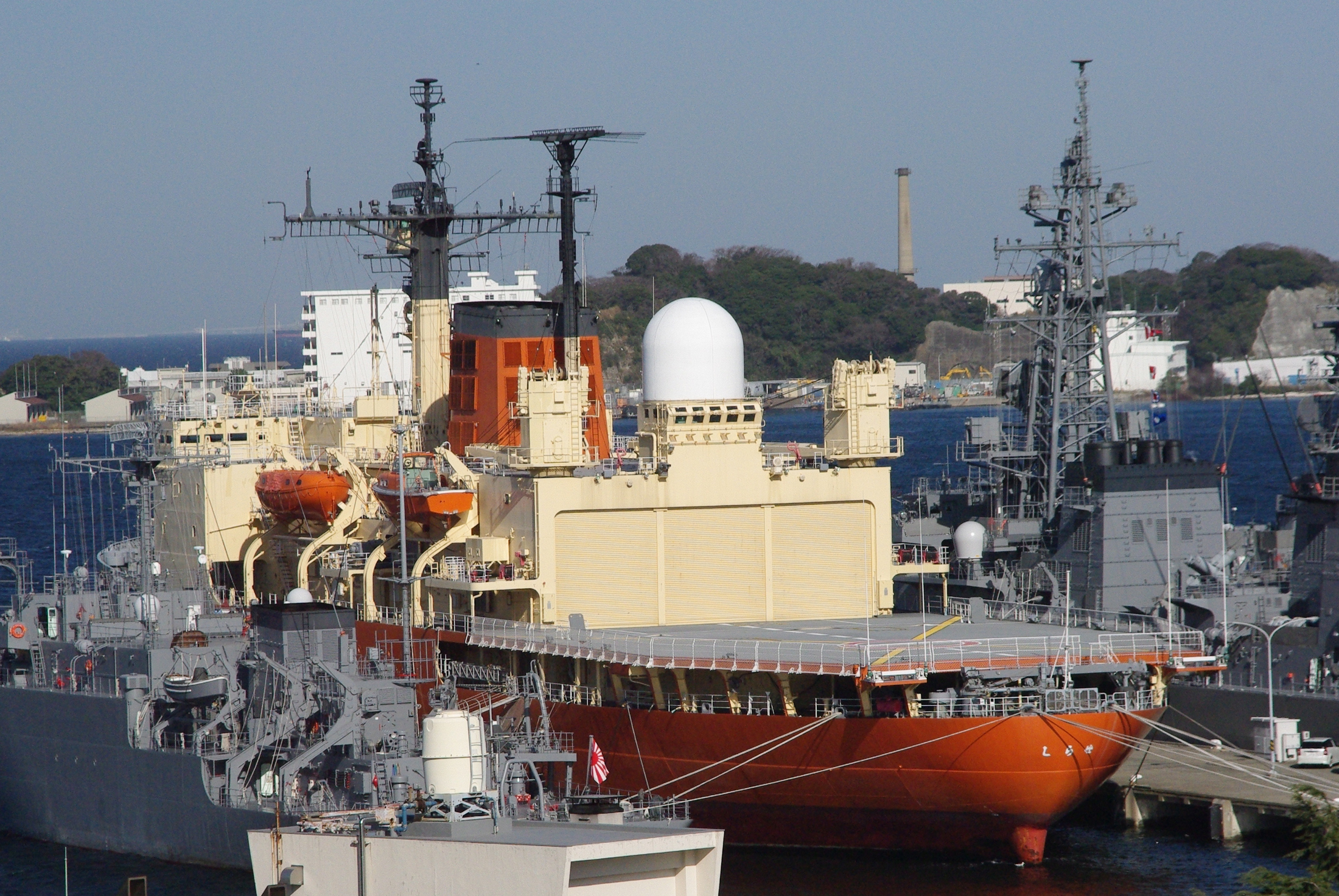 JMSDF_AGB5002_Shirase.Yokosuka,Japan.08-Feb-2009.Taken by los688.PD-self.